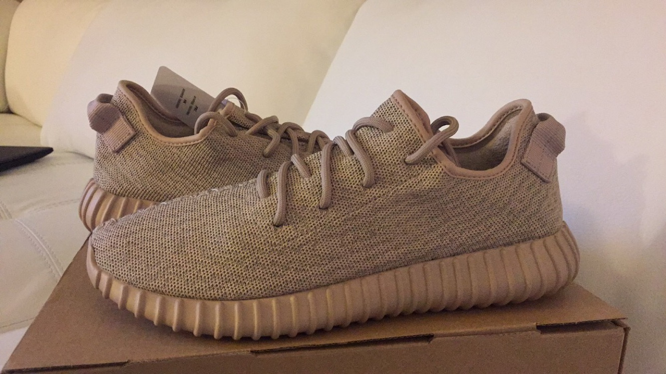 Adidas Yeezy Boost "Oxford Tan"